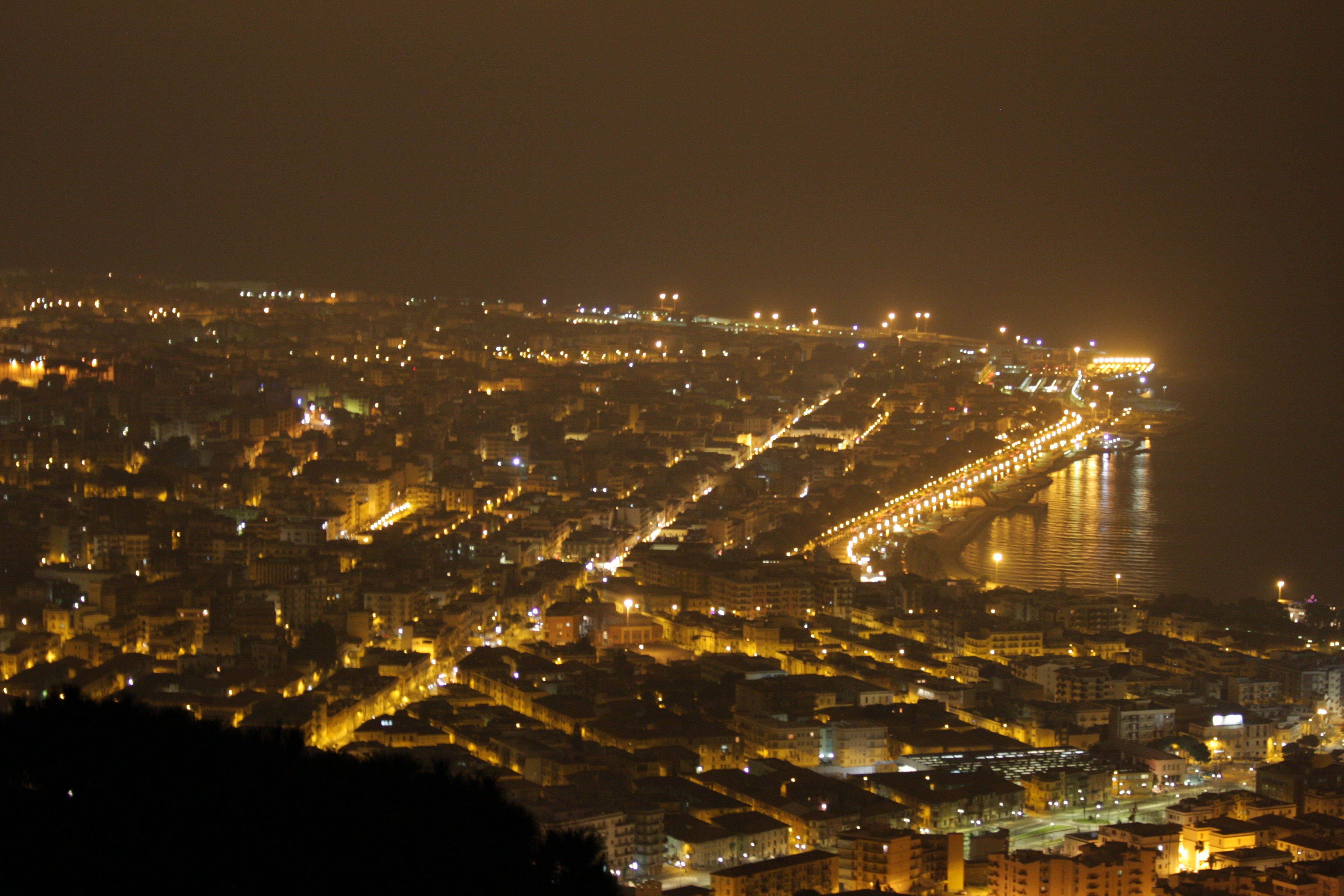 night view of the city of Reggio Calabria